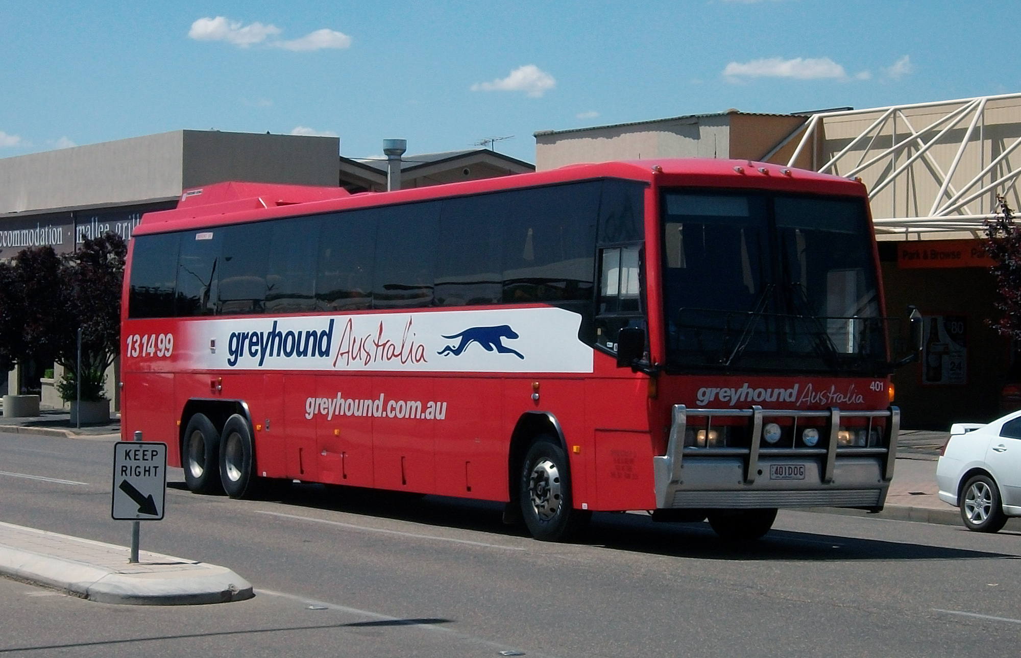 Greyhound Australia MotorCoach Australia (MCA) 14.5-GM.